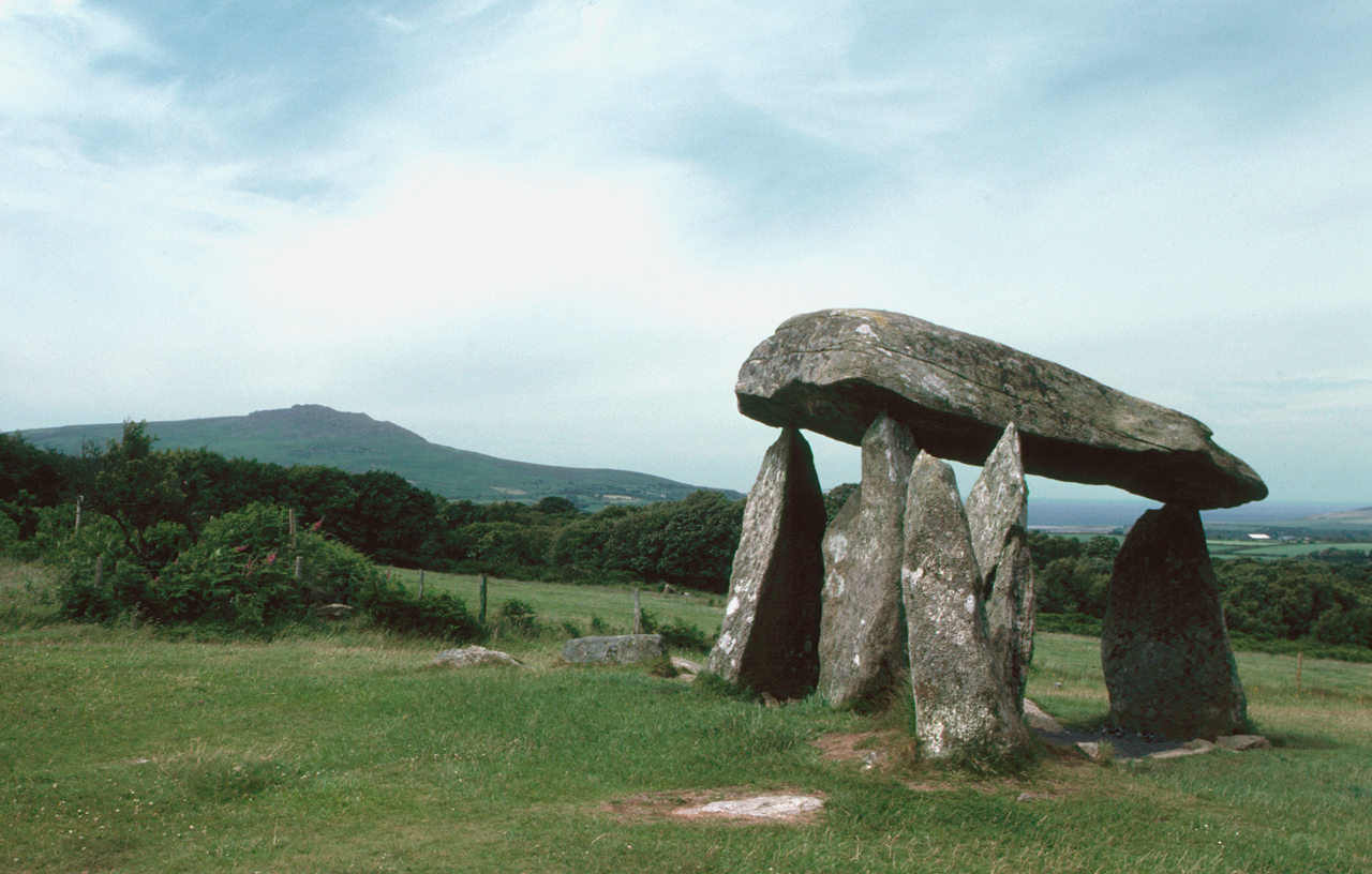 The portal tomb of Pentre Ifan, Pembrokeshire, Wales